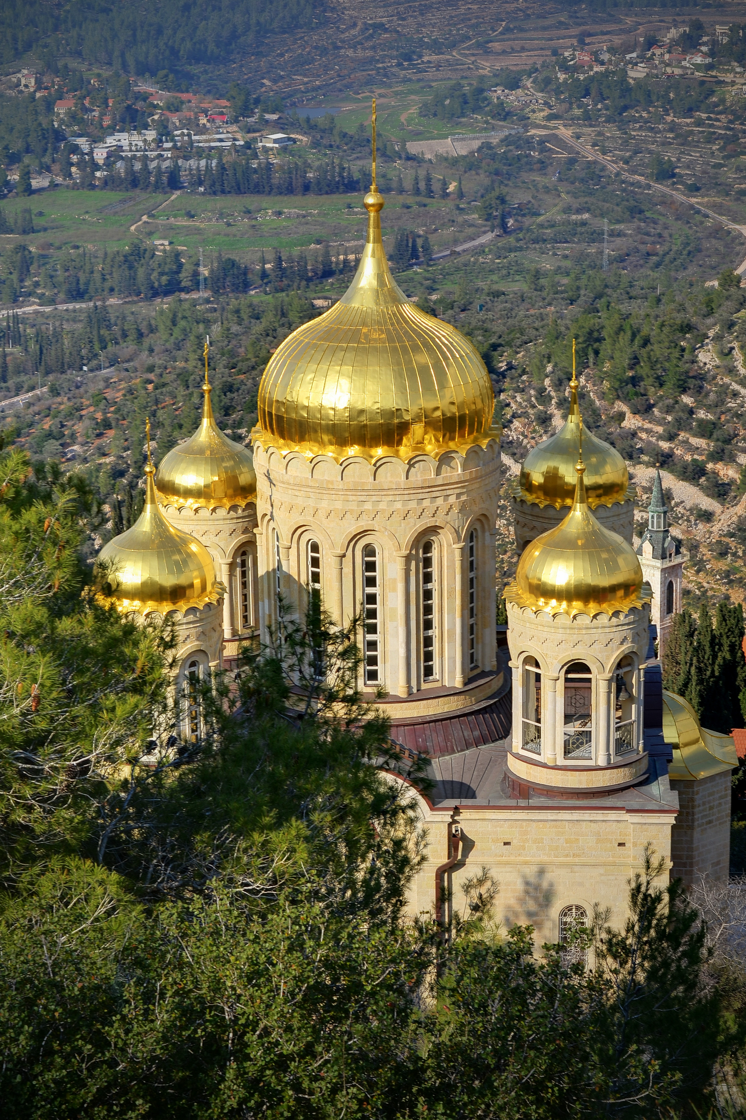 Gorny or "Moscovia" Convent in Ein Karem